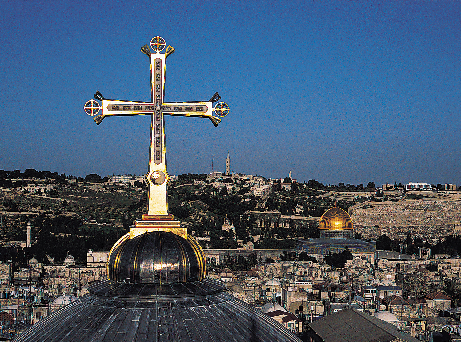 The Golgotha Crucifix topping the smaller dome of the church of the Holy Sepulcher in Jerusalem